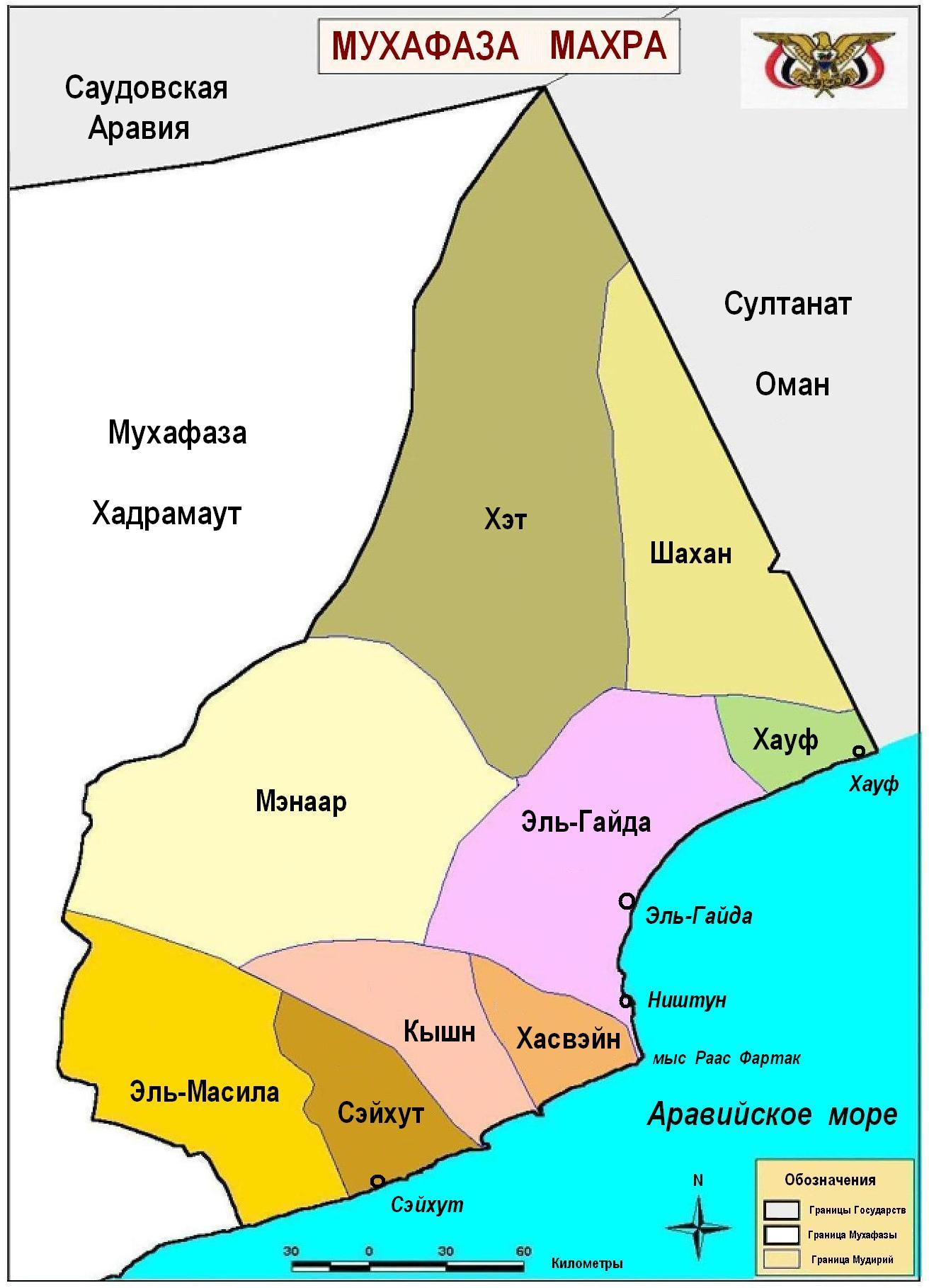 Мухафаза Махра. Карта с разделением на мудирийи.